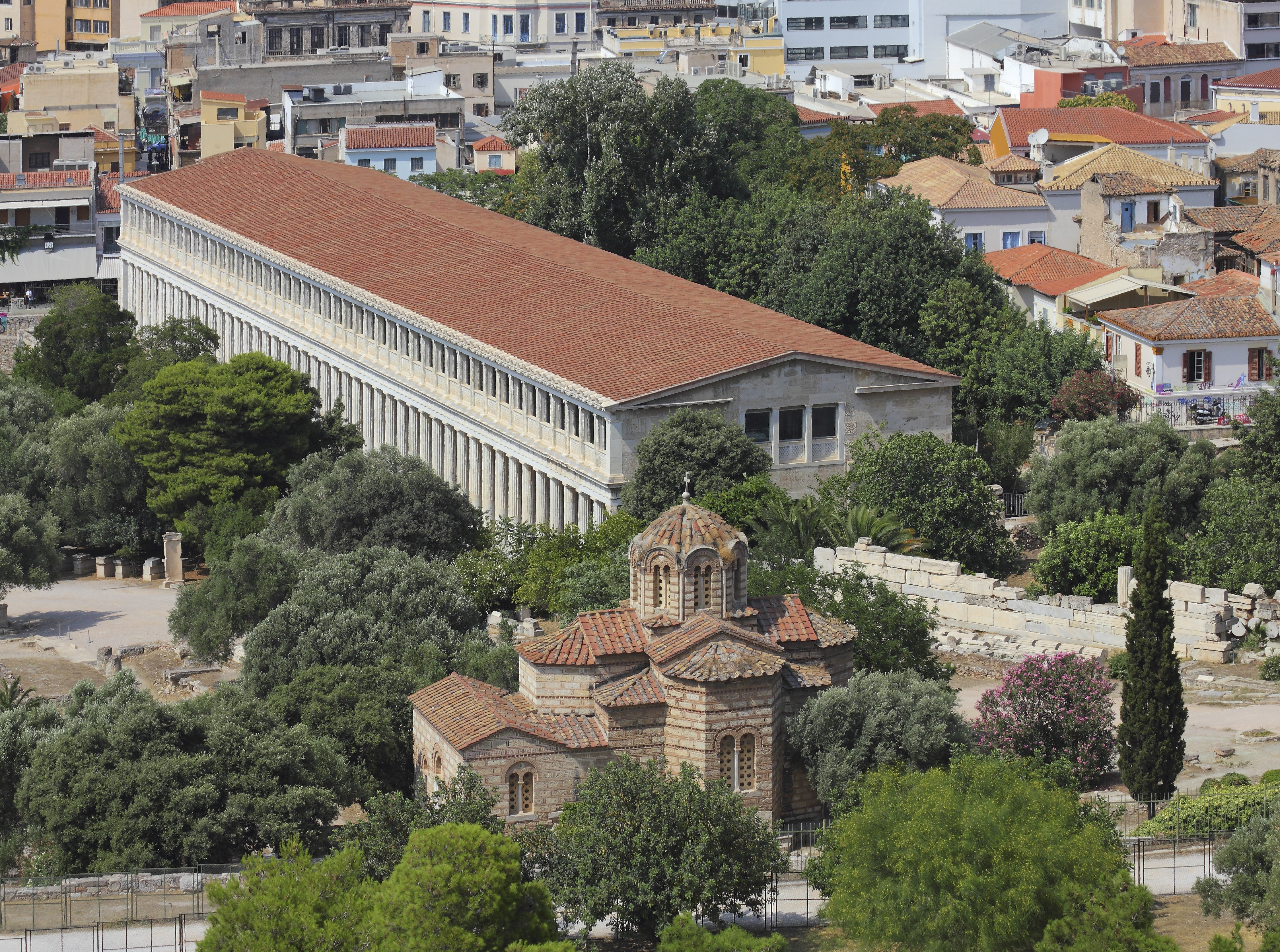 View of Athens (Attica, Greece) from Acropolis hill – Church of the Holy Apostles, Museum of Ancient Agora